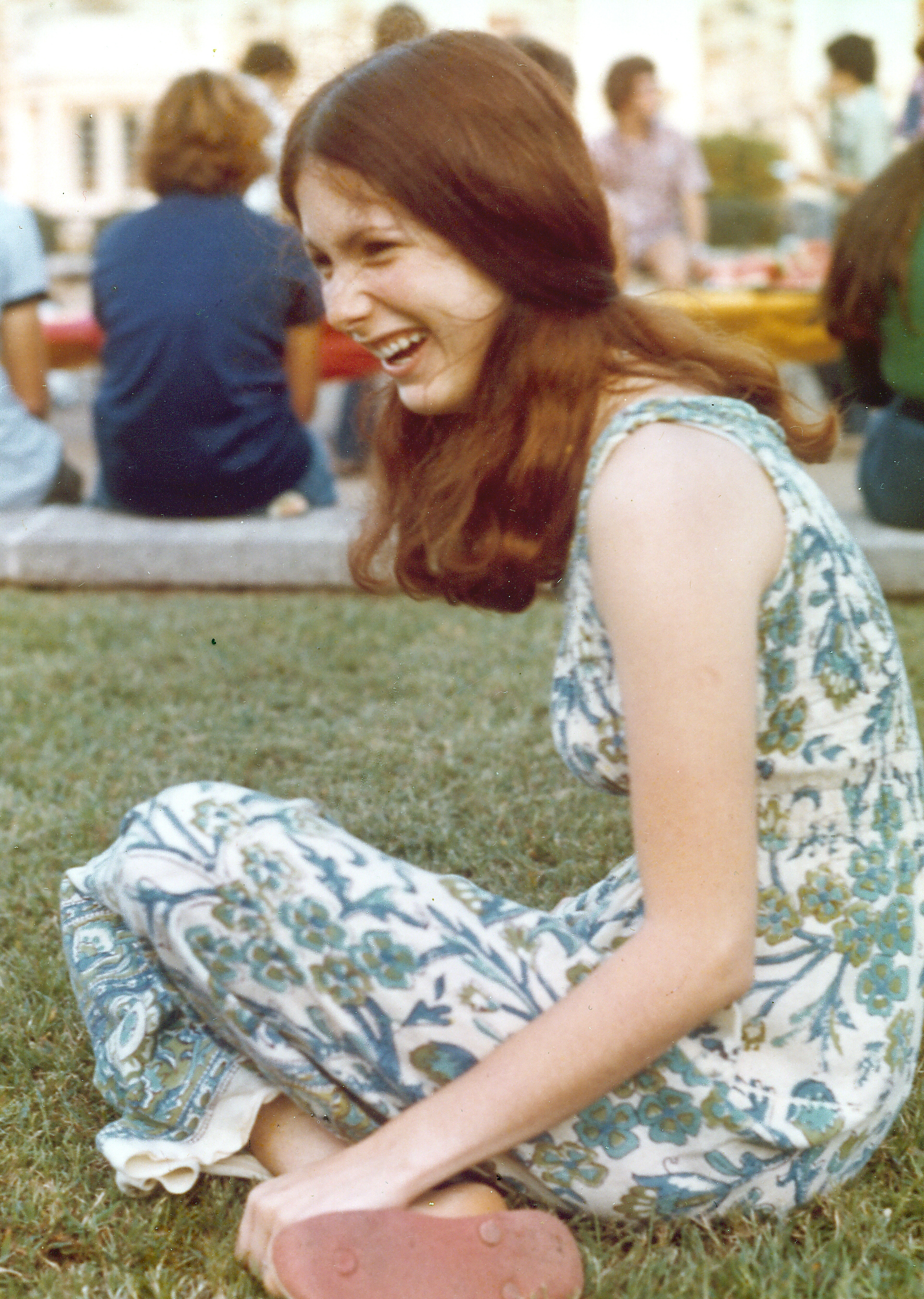 Girl in floral dress. Alice DePass Stevens